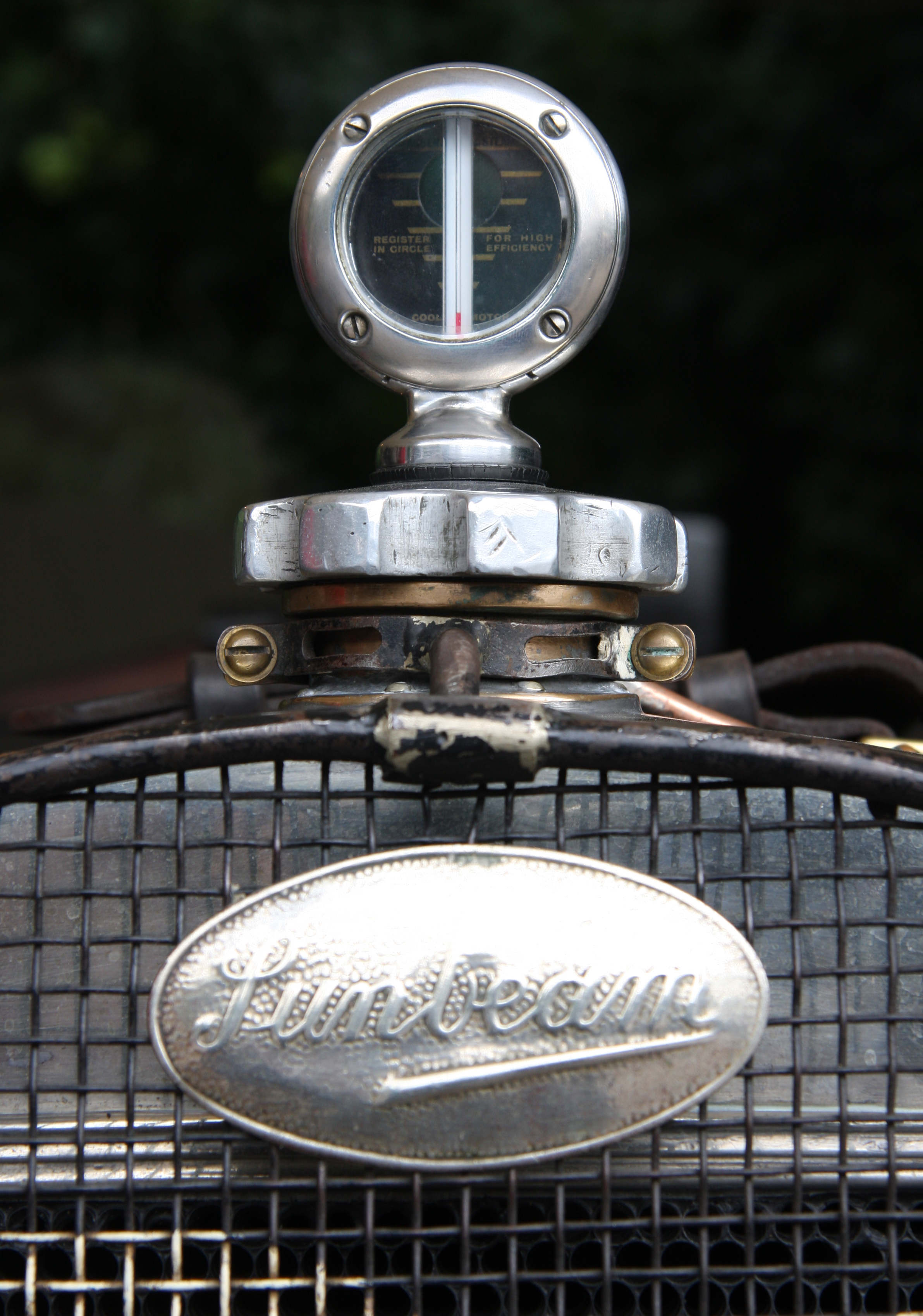 (Aftermarket) temperature gauge on a Sunbeam car